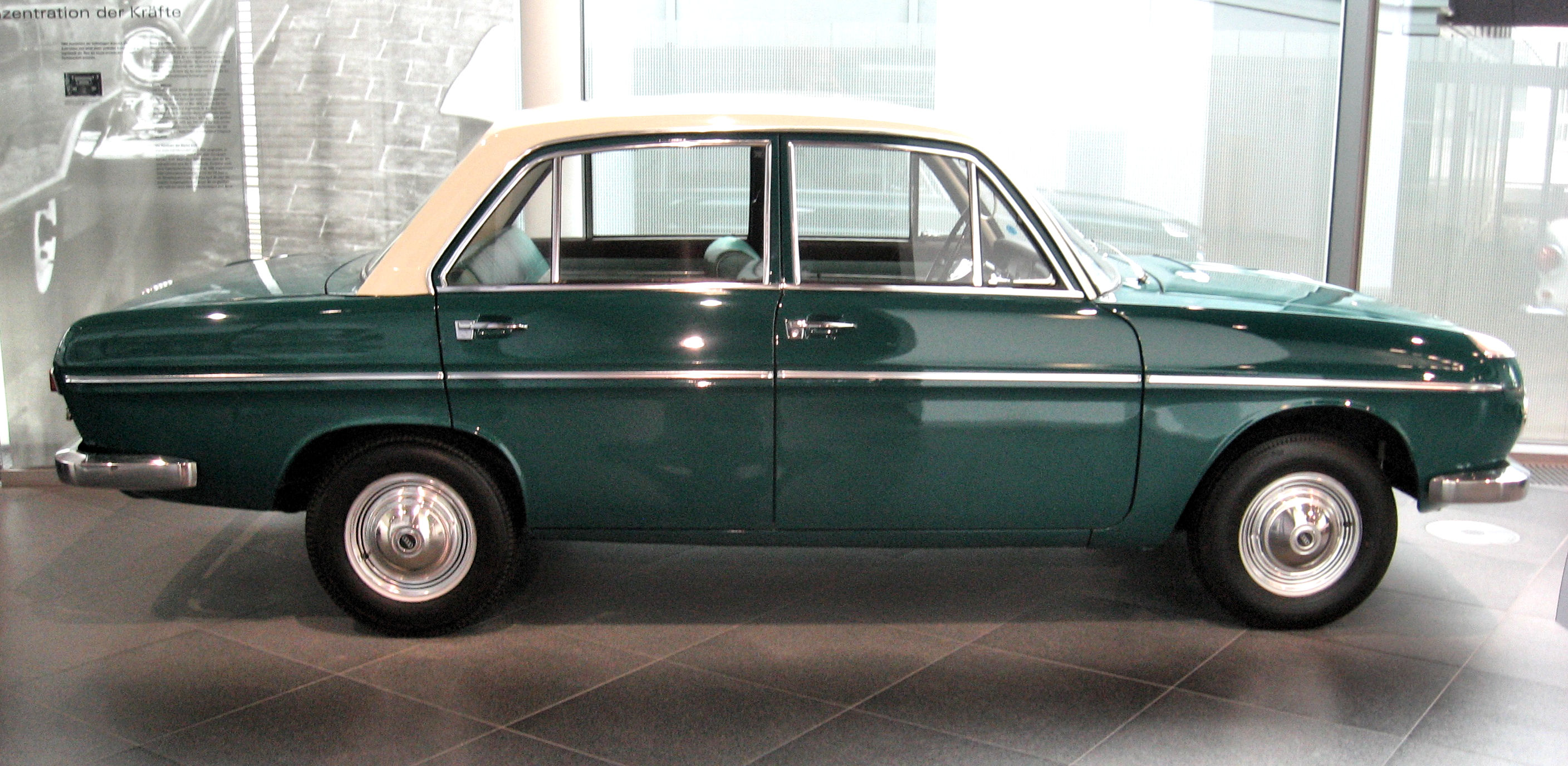 Subject: DKW F102 Author: Luc106 Date: June 13th, 2011 Place/Country: August Horch Museum, Zwickau (Deutschland) I release all rights in the public domain. Licensing